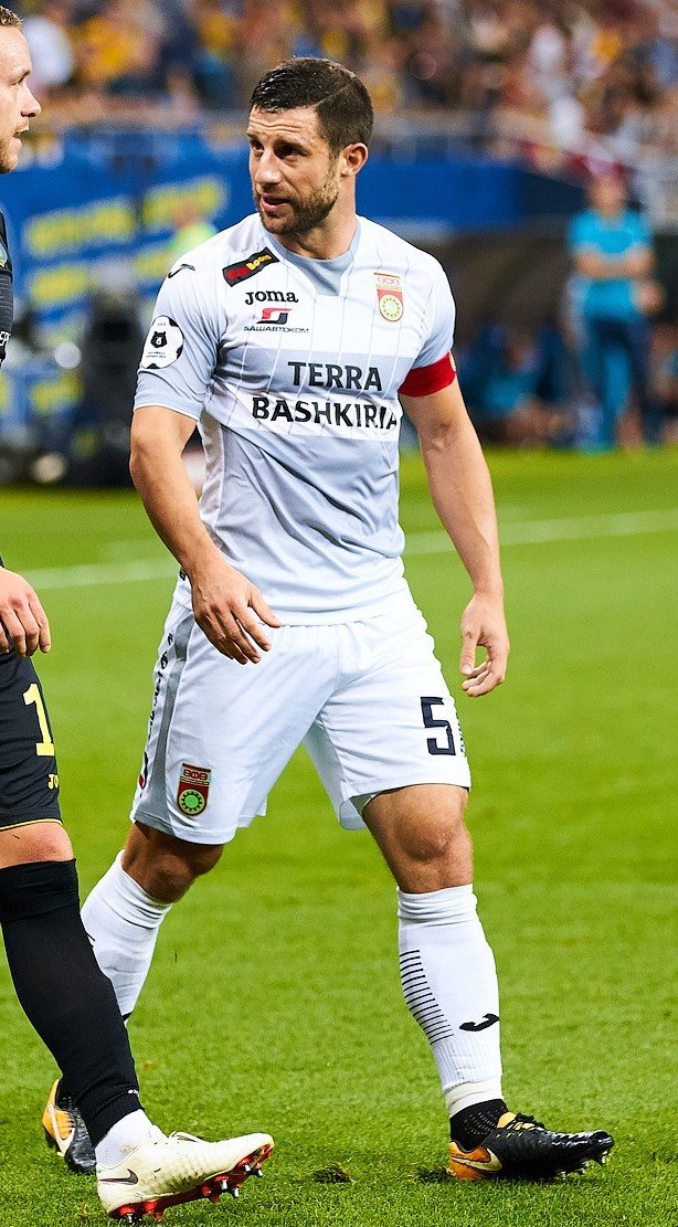 Bojan Jokić